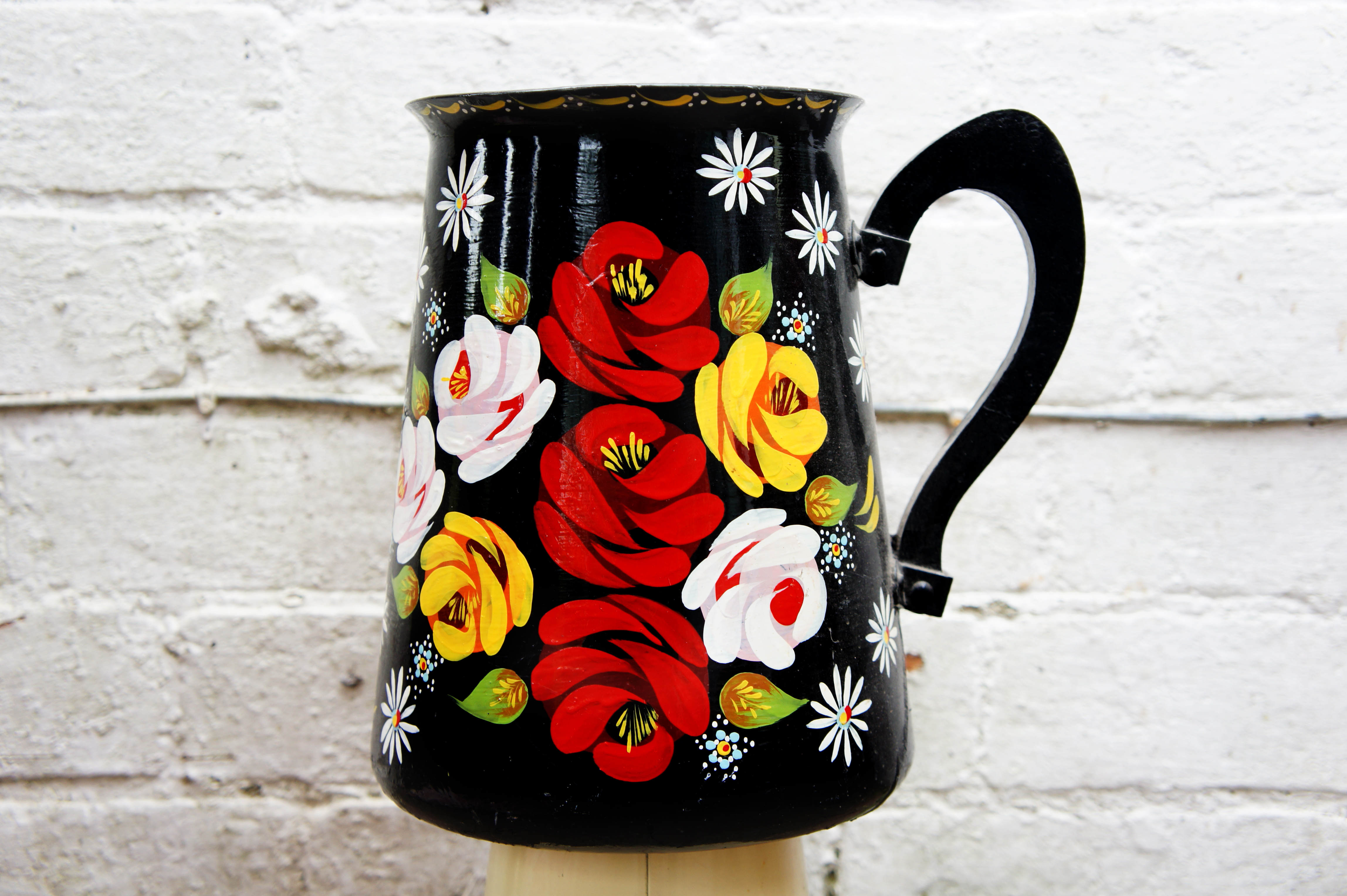 Roses design painted on a black waterjug from a narrowboat